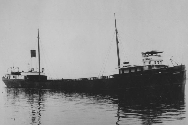 The steamer Cambria was built in 1887. In 1910 she was renamed Lakeland. She sank in 1924